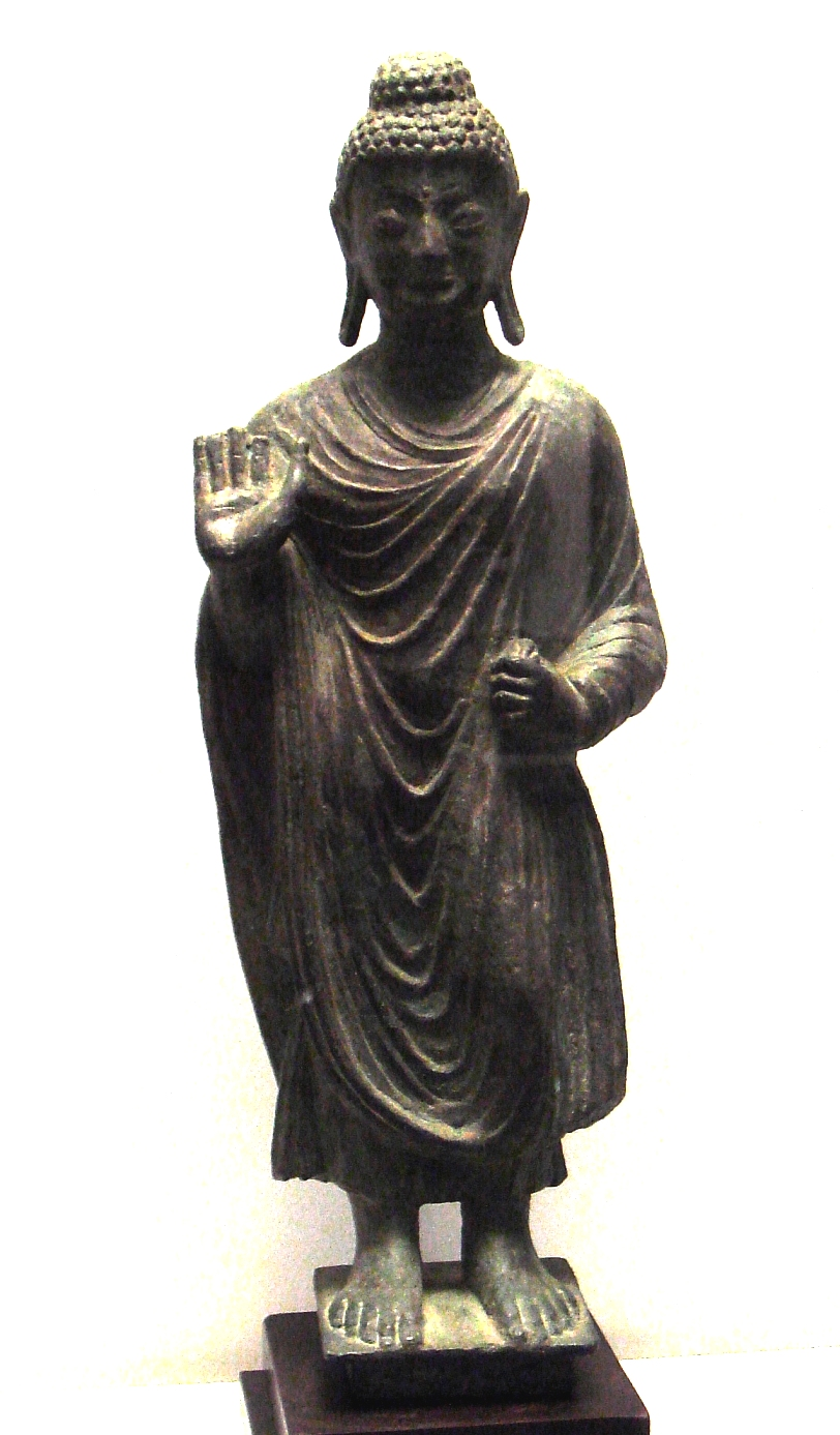 Standing Buddha in bronze, Gandhara, usually dated to the 3rd-4th century CE, Musée Guimet. Personal photograph 2006.